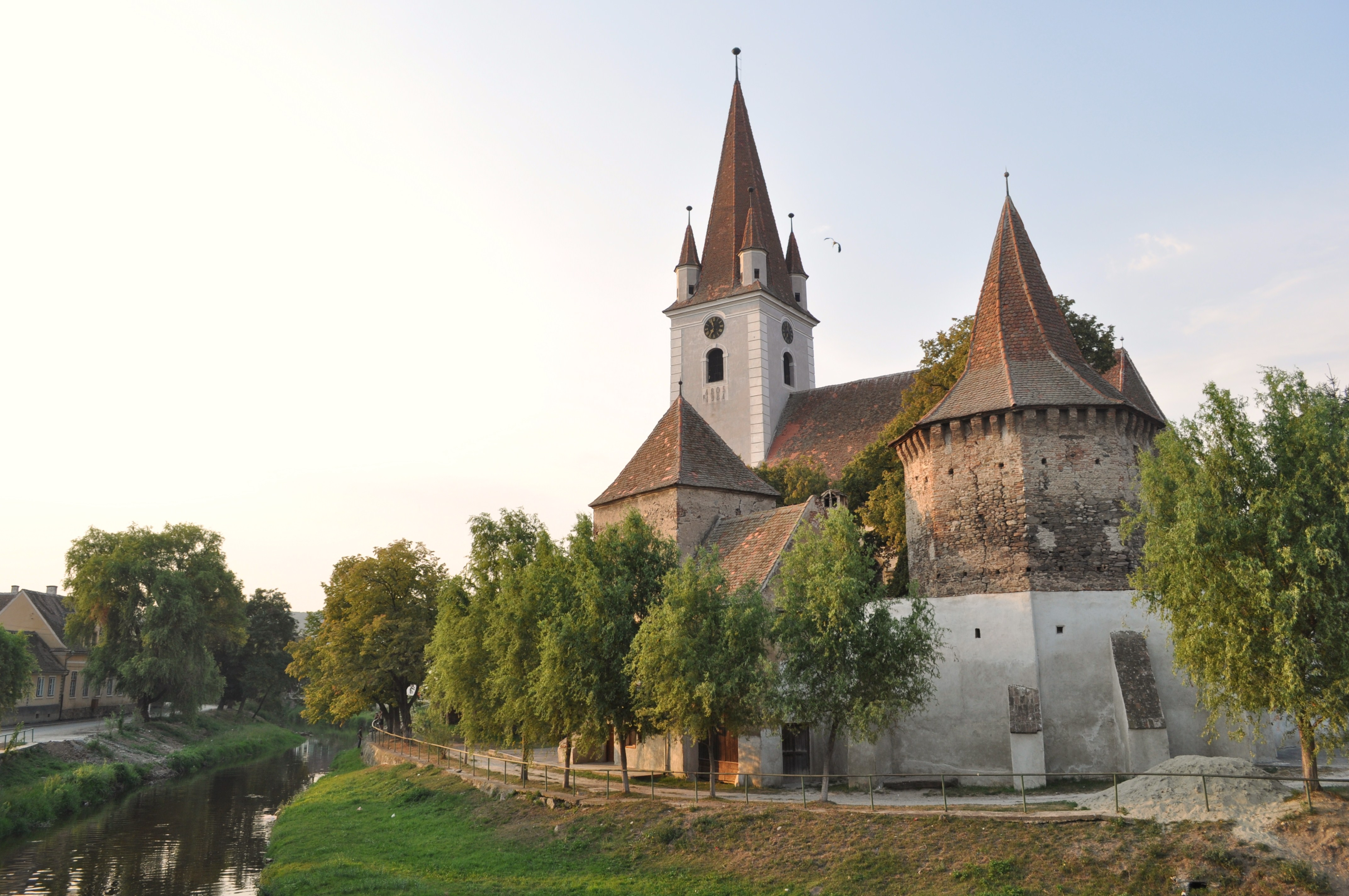 Saxon fortified church in Cristian, Sibiu countyRomână: Biserica evanghelică fortificată din Cristian, județul Sibiu